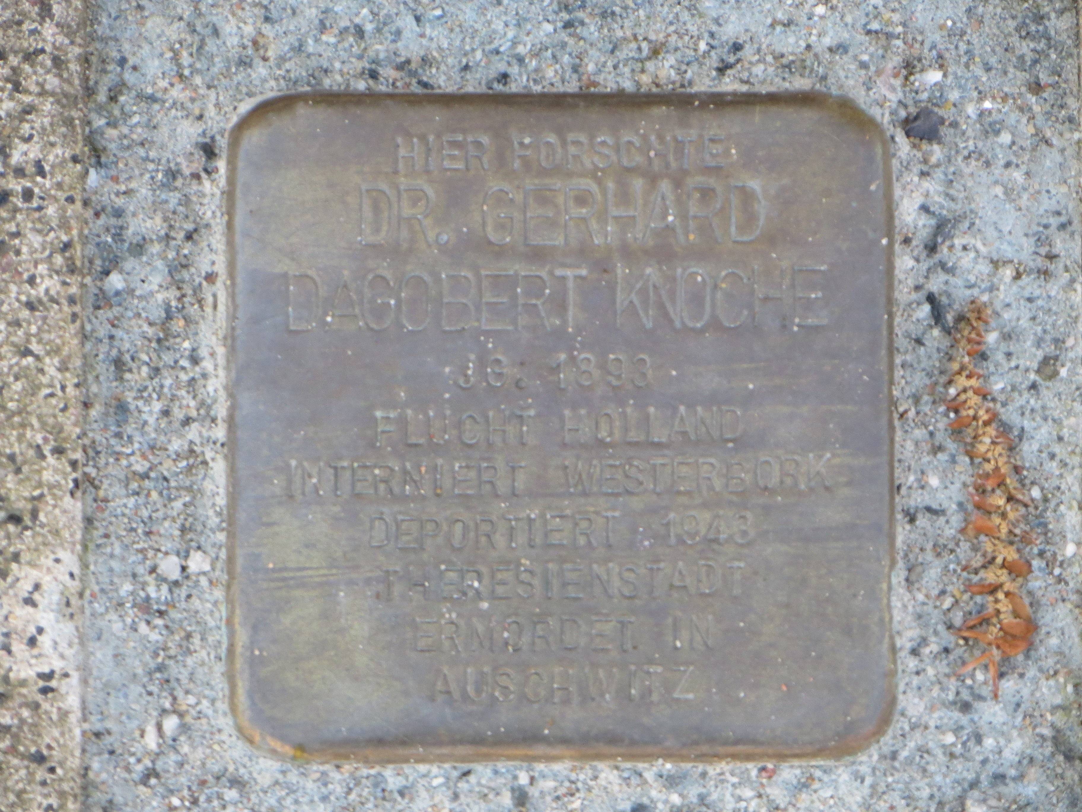 Domstr. 9a in Greifswald: Stolperstein Gerhard Knoche